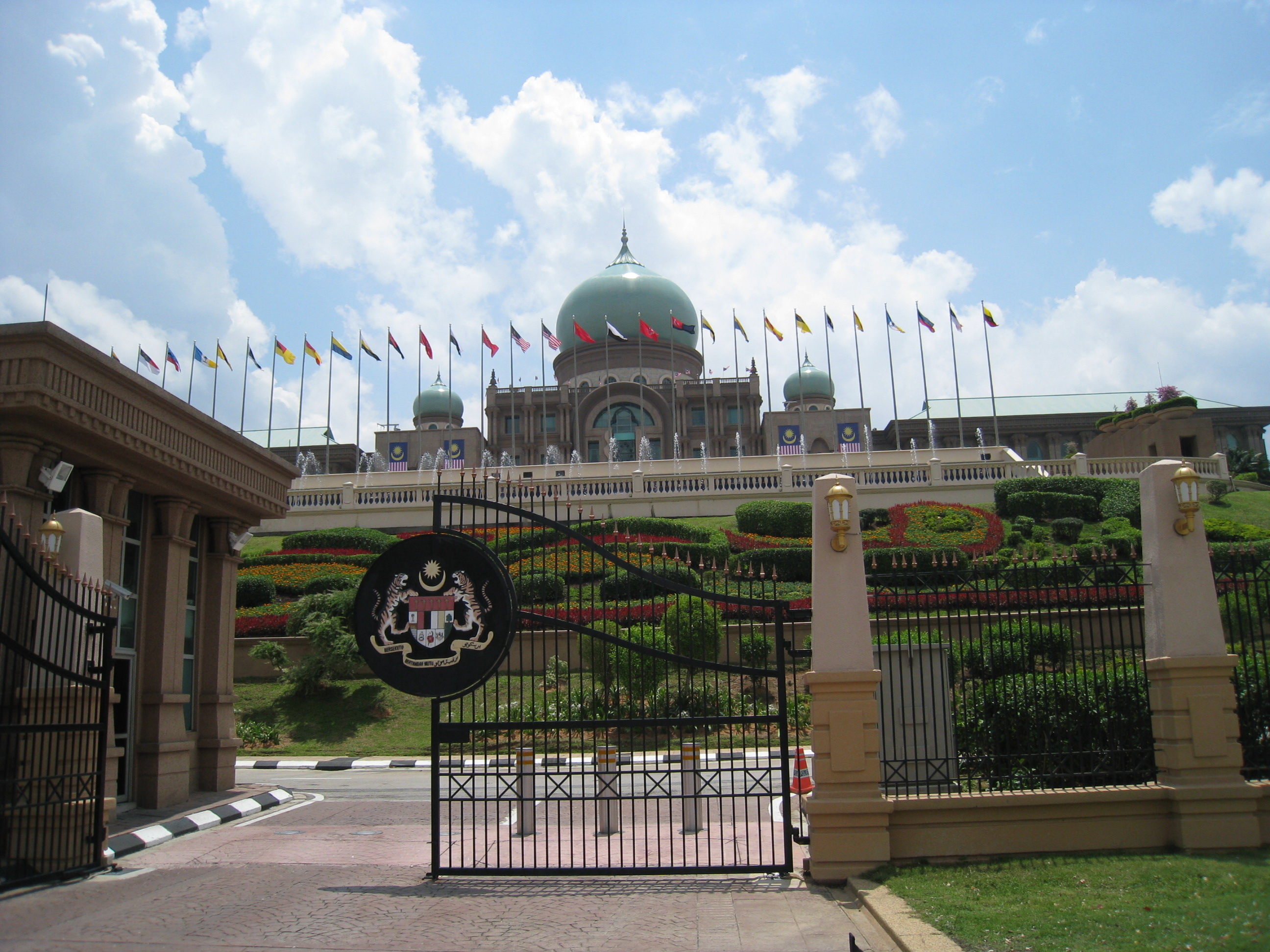 Perdana Putra Putrajaya